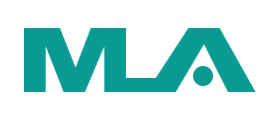 Medical Library Association Logo. Higher resolution unavailable.